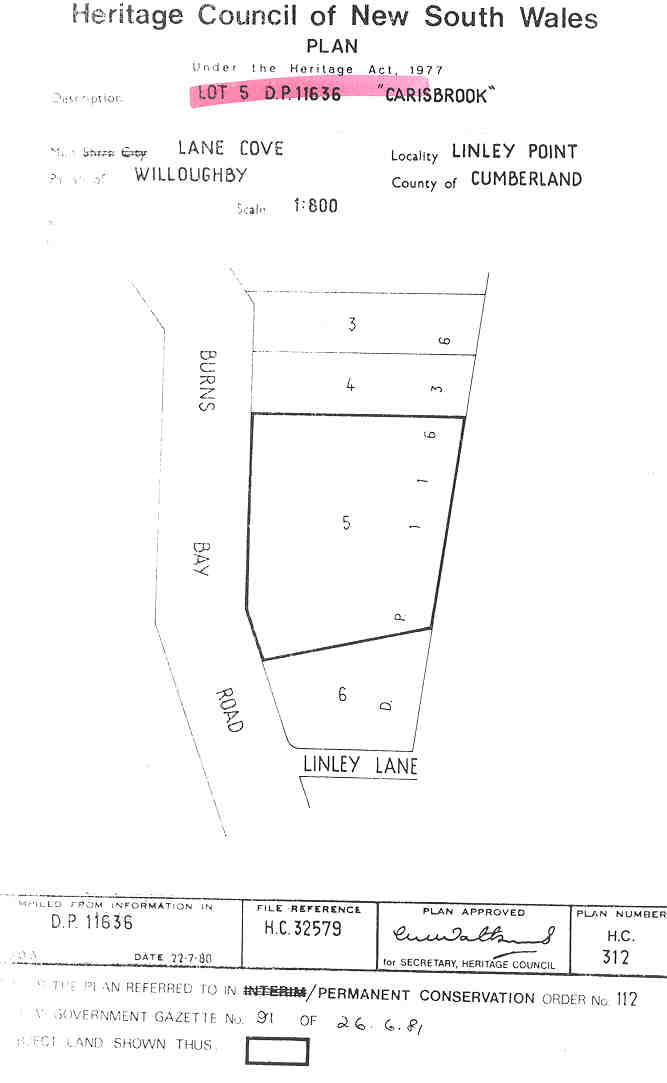 Carisbrook, Lane Cove: PCO Plan Number 112